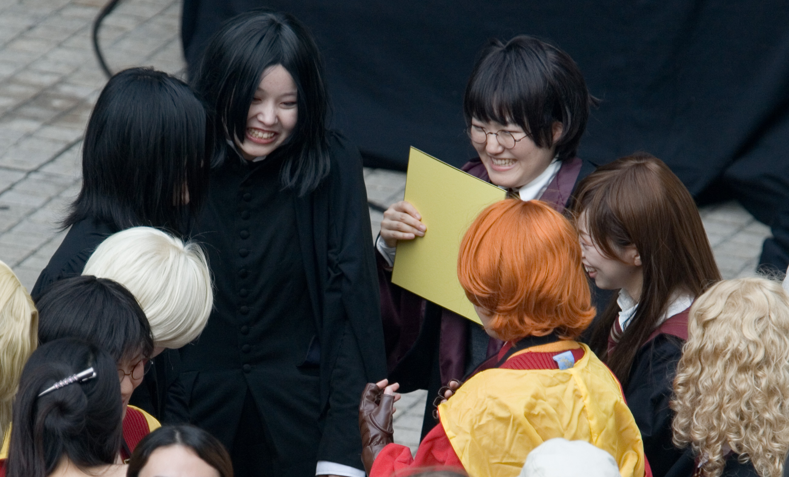 Harry Potter fans in costume eagerly await the start of the Tokyo June 2007 premier of Harry Potter and the Order of the Phoenix.